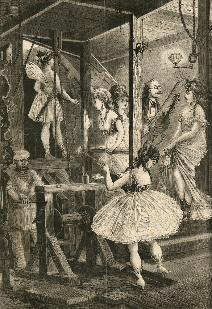 Newspaper illustration showing a 'star trap', late 19th century